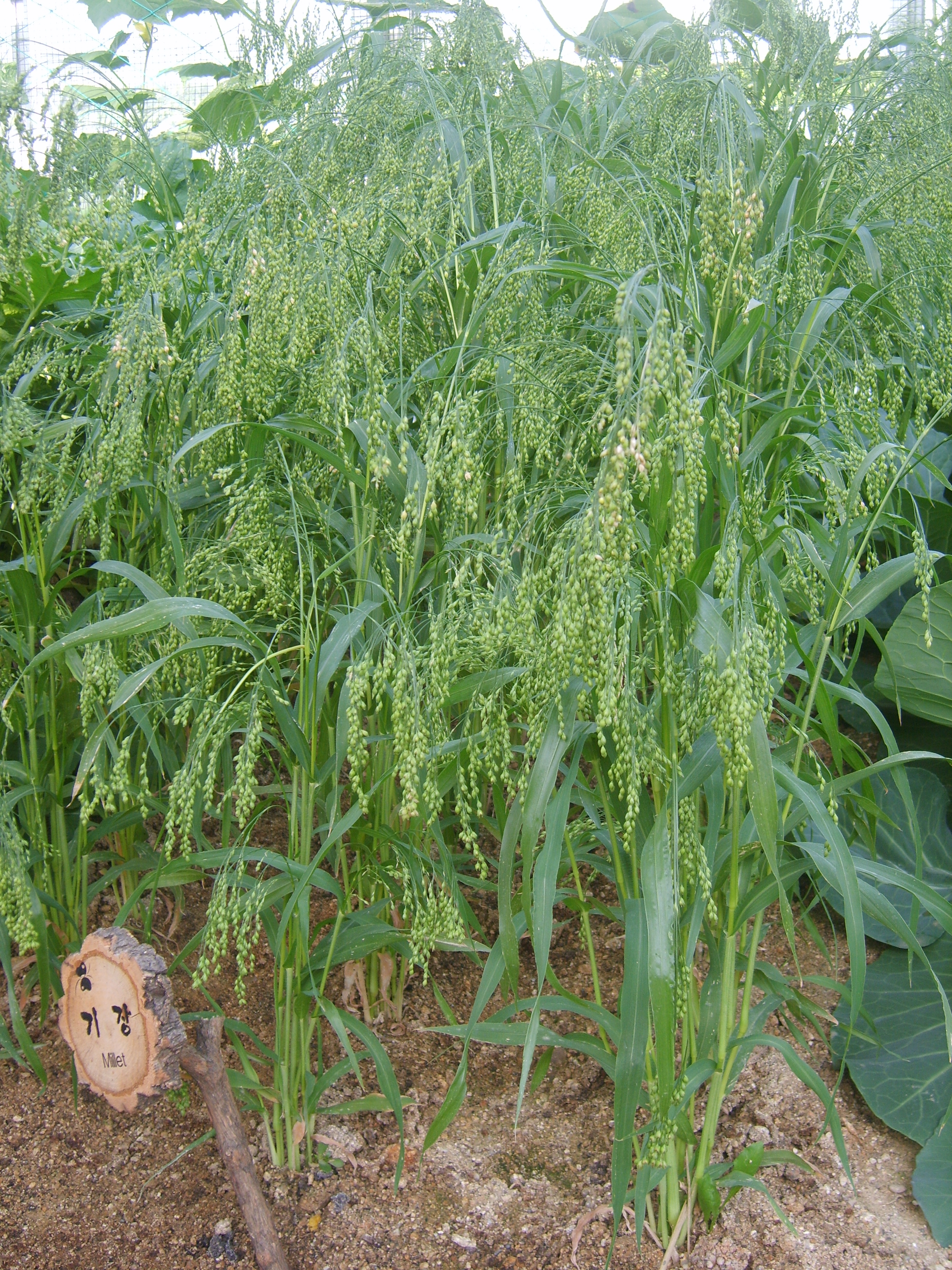 Panicum miliaceum in Hampyung, Korea